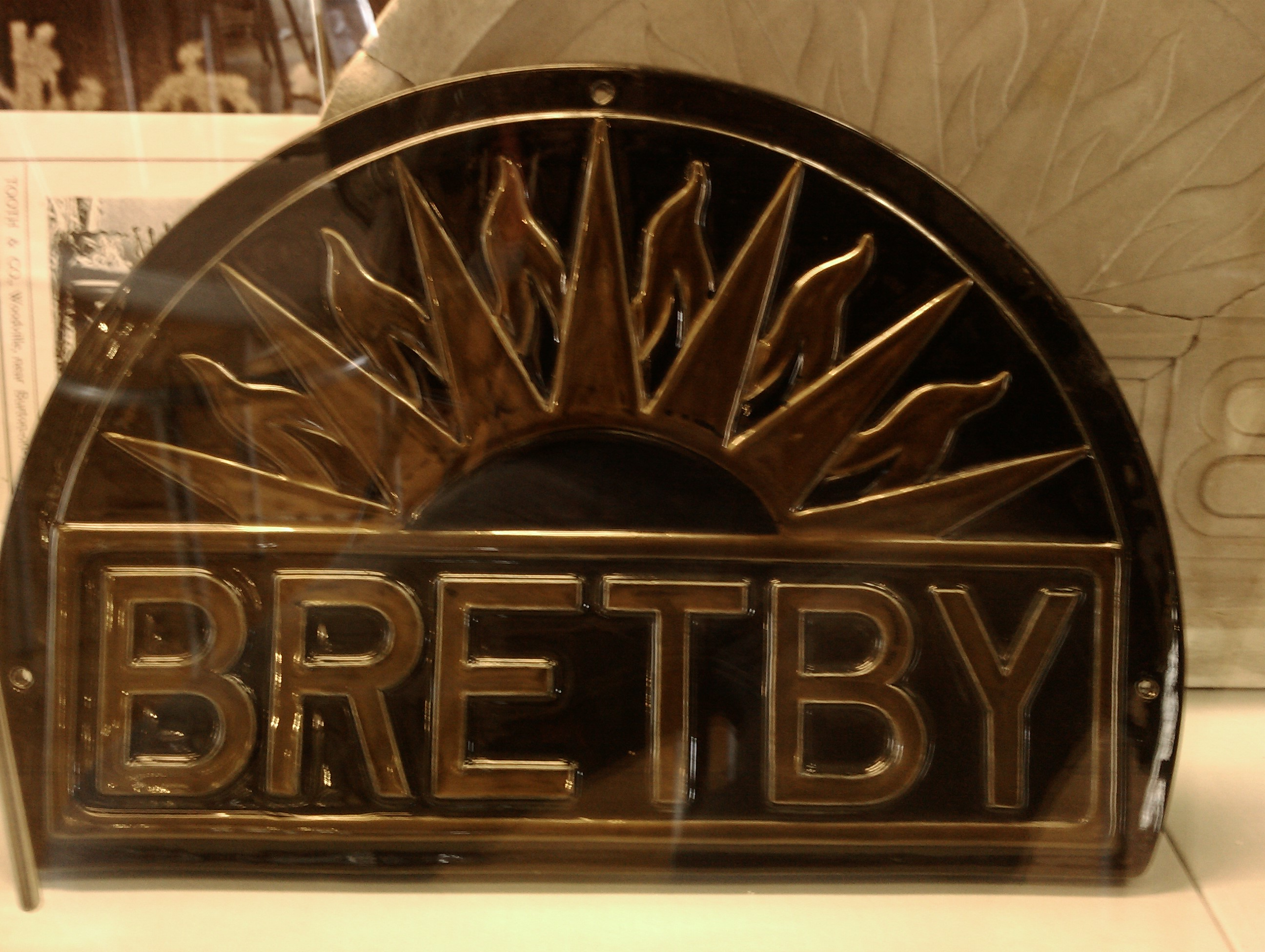 Bretby Art Pottery sign